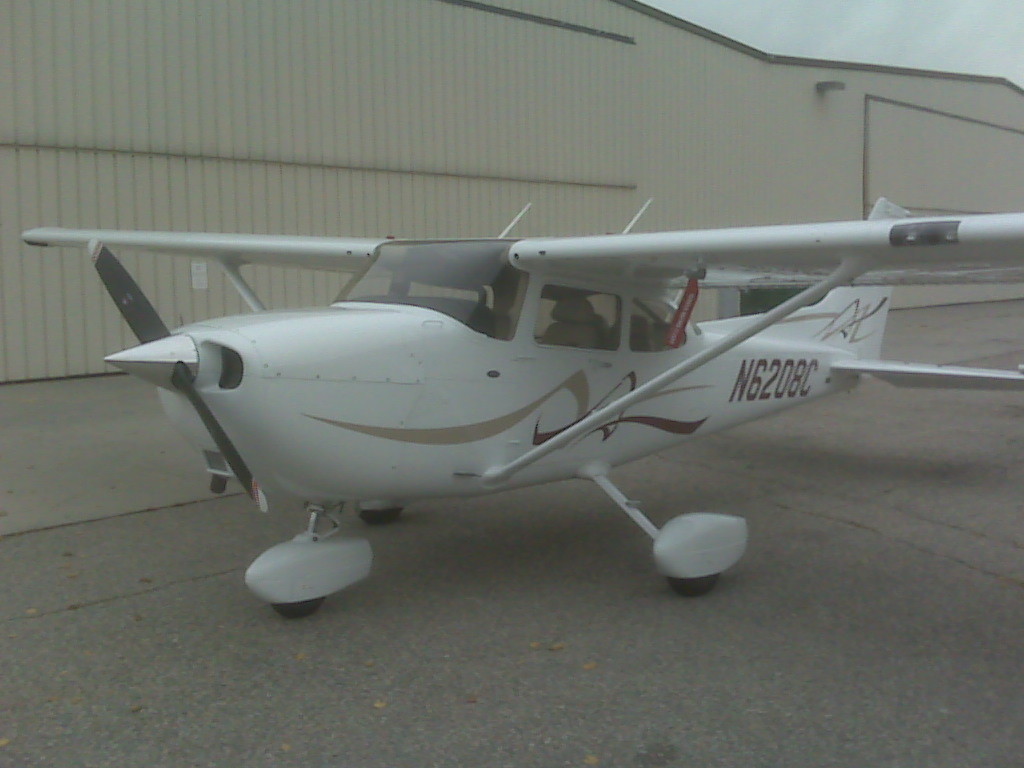 N6208C was the 172 I took my discovery flight in. It was great. Image taken in front of the Leading Edge Aviation hangar.